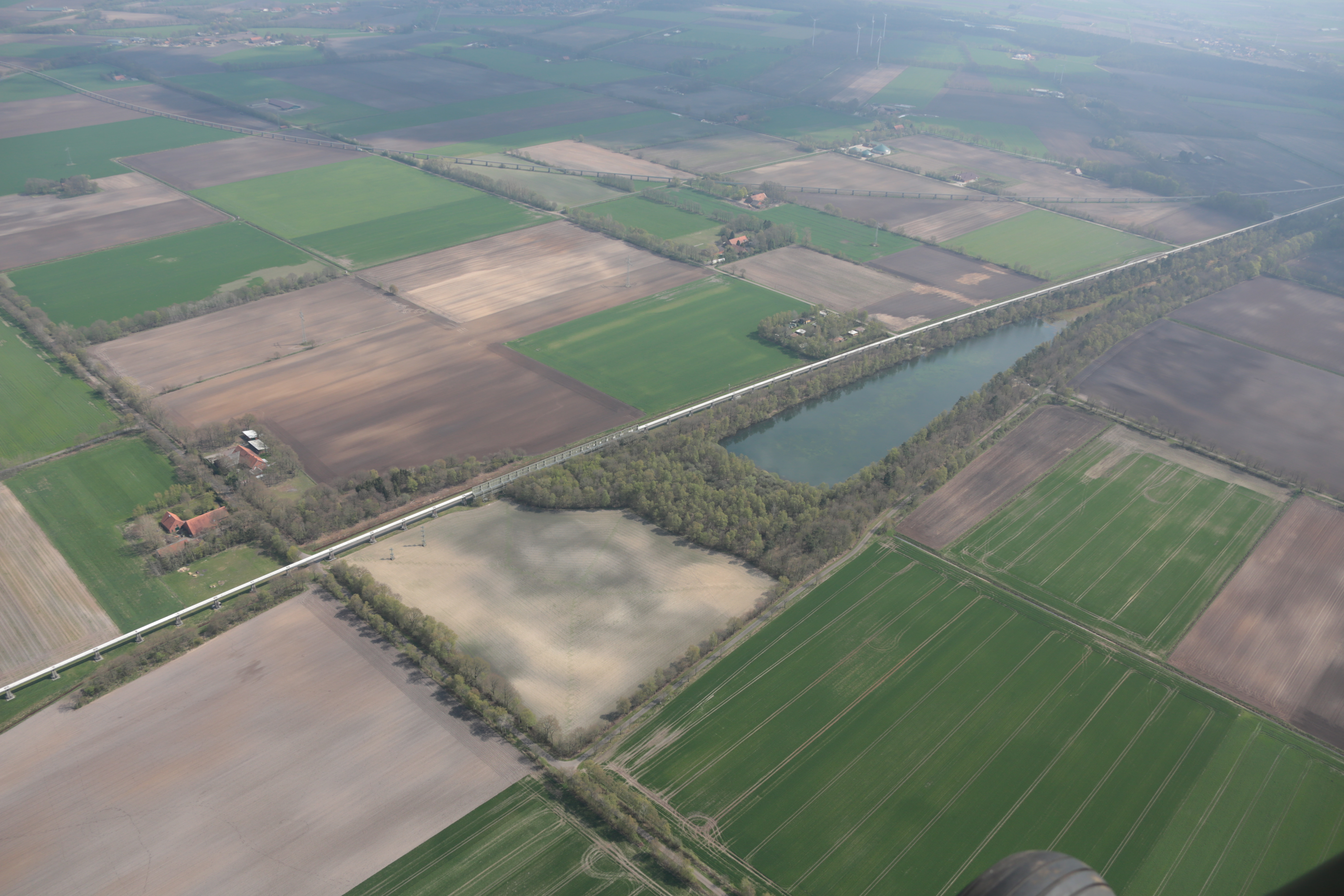 Fotoflug von Nordholz-Spieka nach Oldenburg und Papenburg This photo was taken by Alchemist-hp. If you use one of my photos, an email (account needed) or a message or direct to: my email account would be greatly appreciated. Please note the license terms. Other licensing terms can get discussed, too. This file is copyrighted and has been released under a license which is incompatible with Facebook's licensing terms. It is not permitted to upload this file to Facebook.